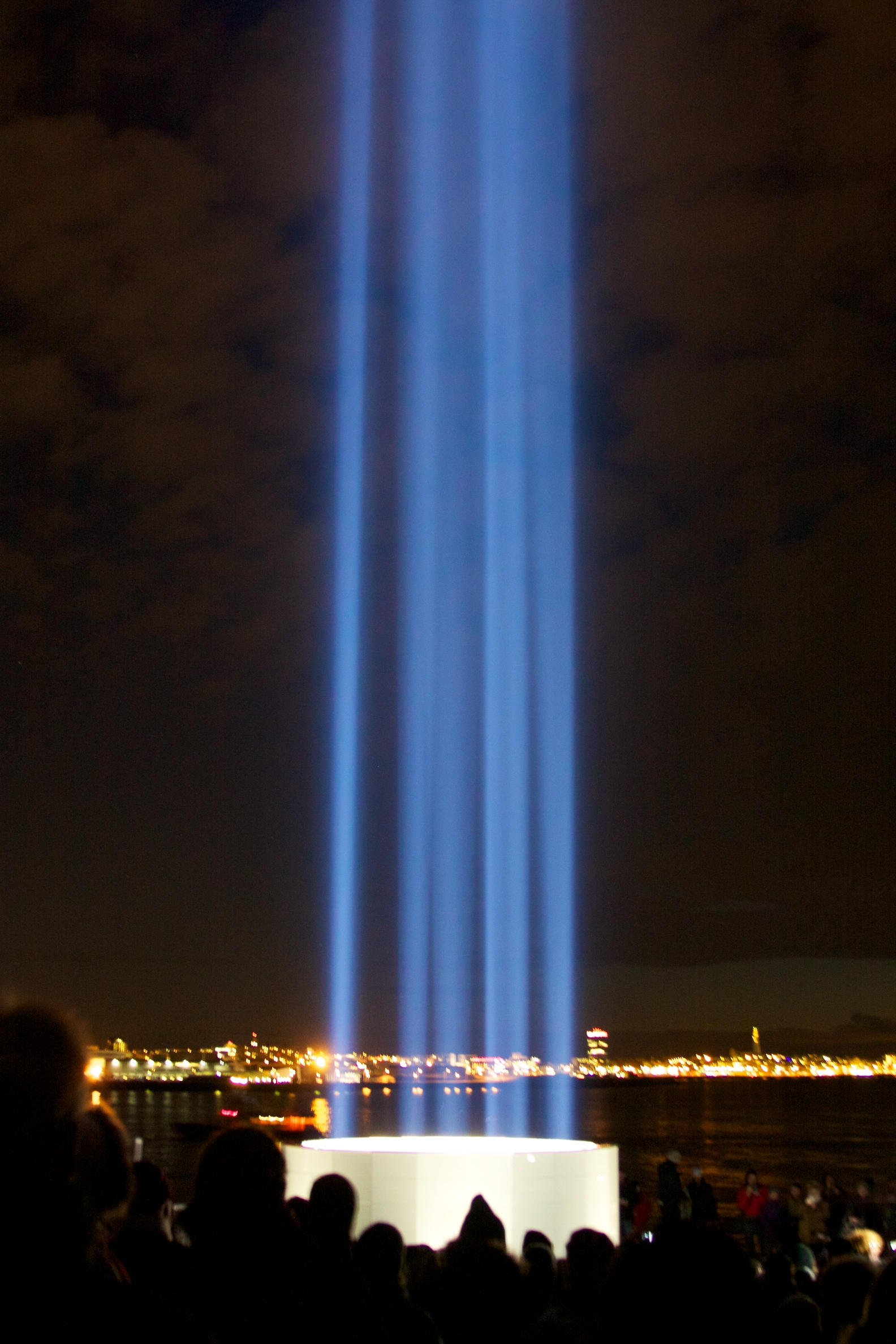 Imagine Peace. The lighting of the Peace Tower in Reykjavik. So amazing to be there. Happy birthday John.